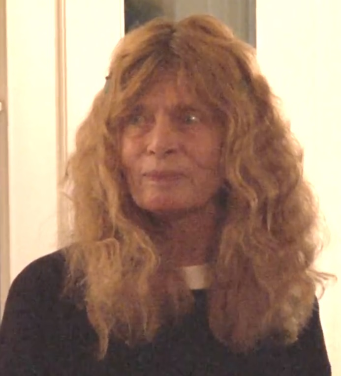 HCAM News Focus: 26.2 Foundation hosts Bobbi Gibb, the first woman to have run the Boston Marathon. (26.2 is the length of a marathon in miles.)